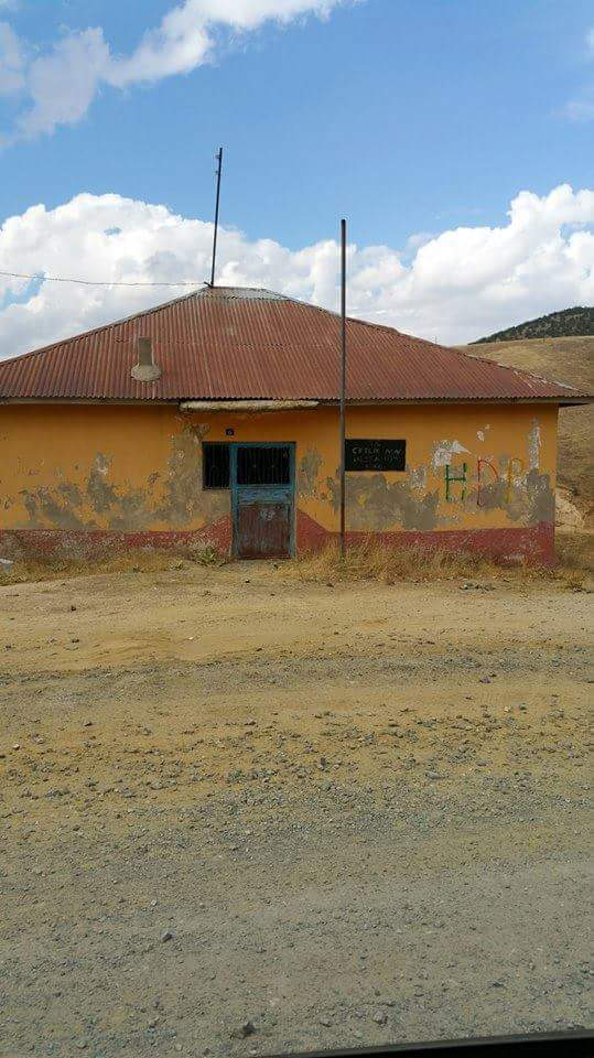 Schule im Ciftlikköy